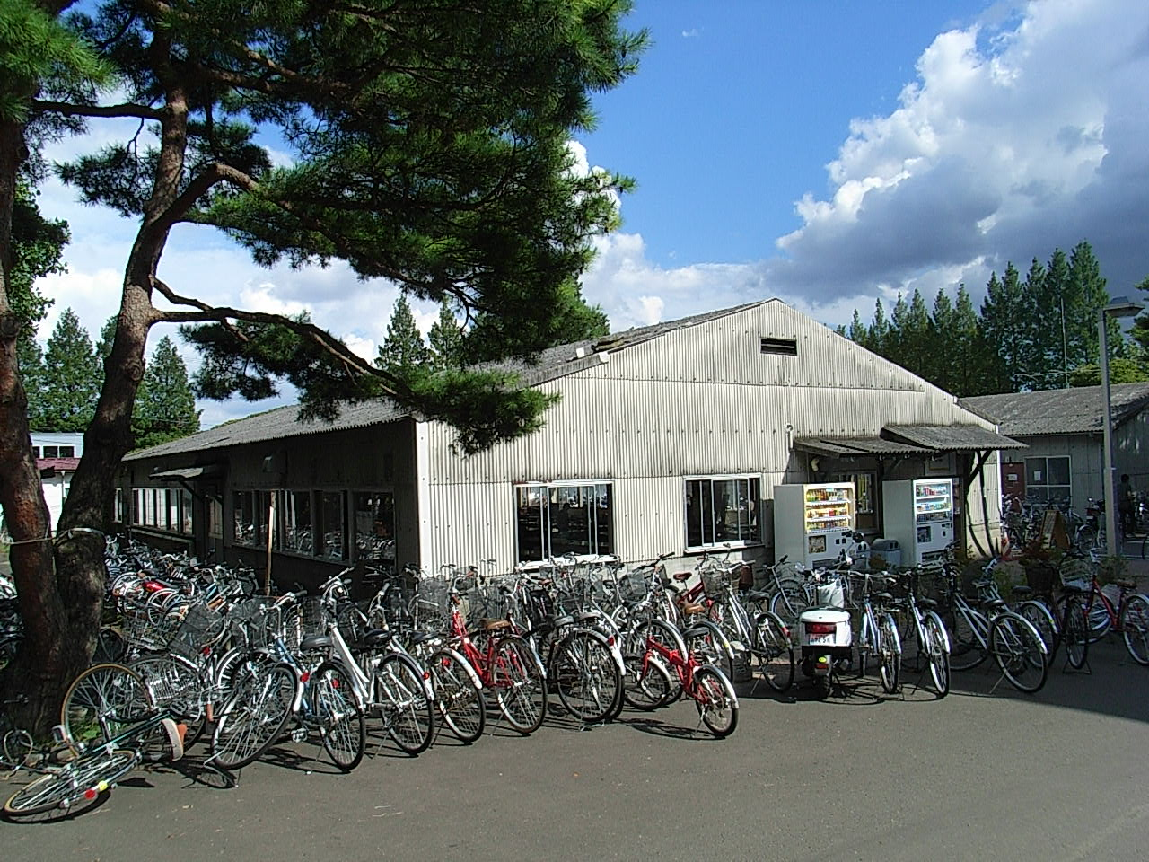 Tohoku University Second Restaurant. Sendai, Miyagi prefecture, Japan.